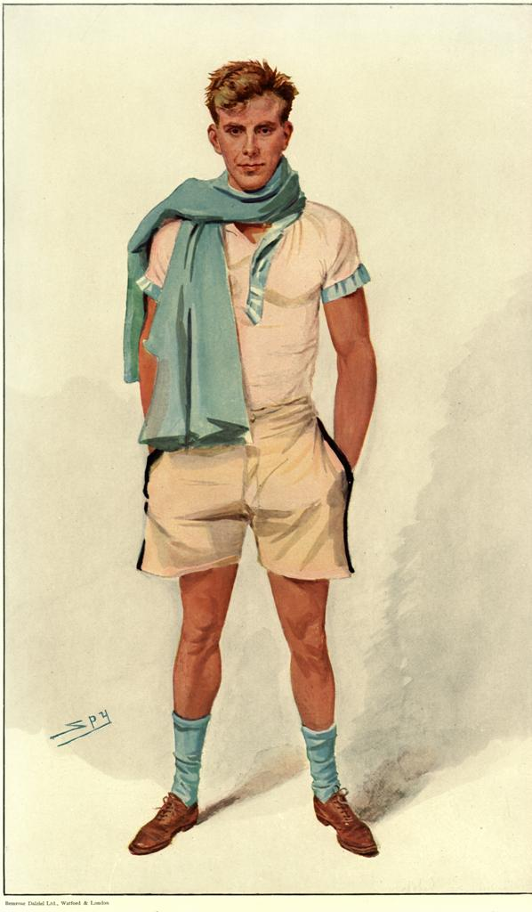 Caricature of Douglas Cecil Rees Stuart - “Duggie”.